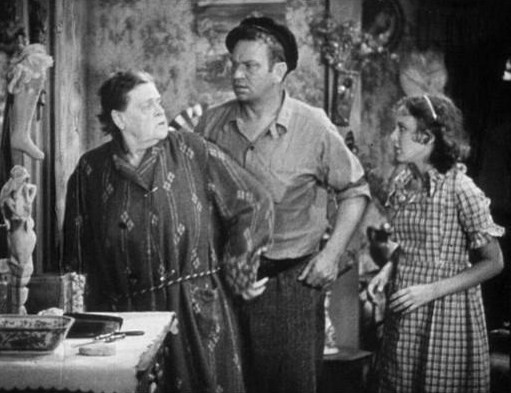 Frame from the public domain trailer for MGM's film Min and Bill (1930) showing Marie Dressler, Wallace Beery and Dorothy Jordan